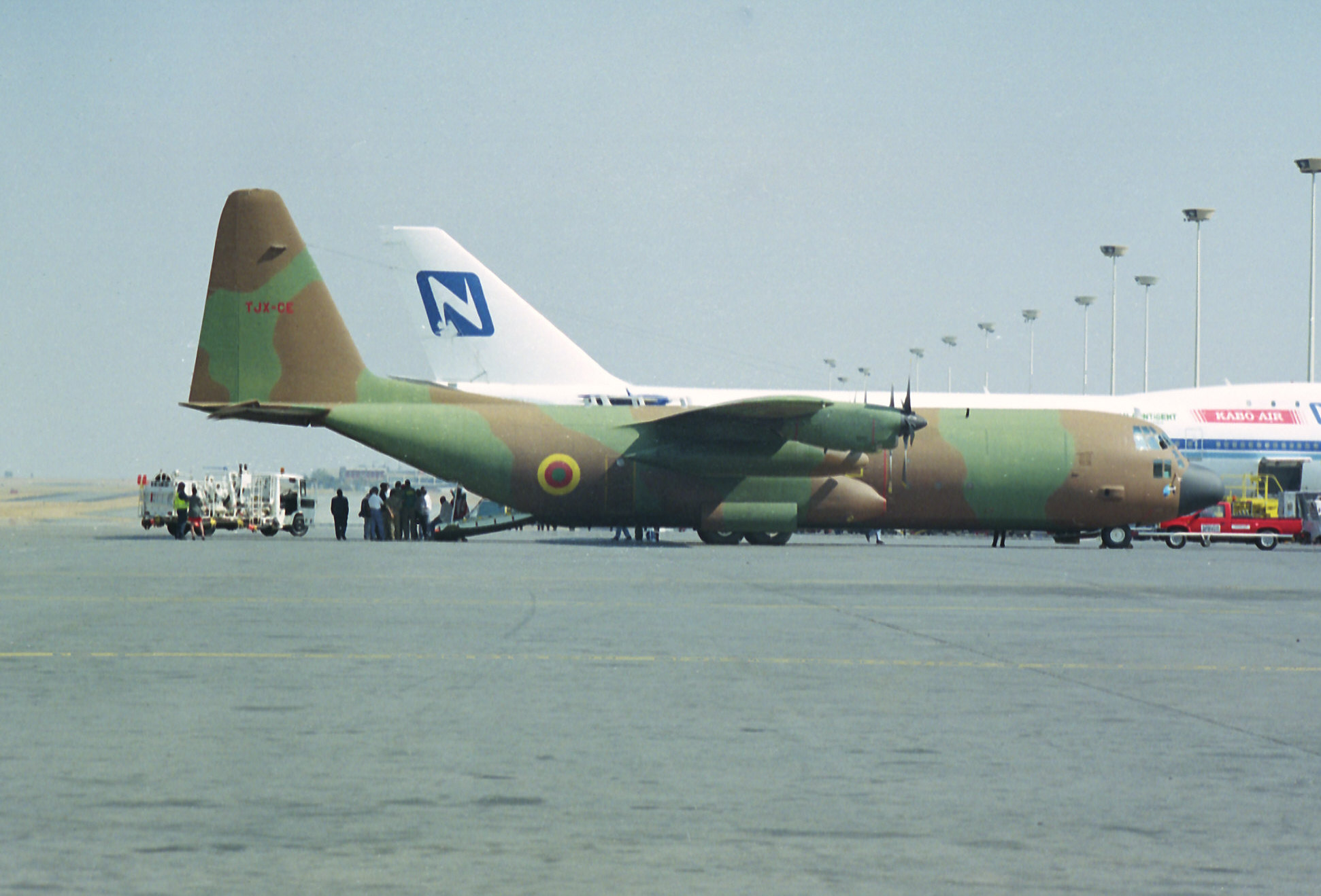 Cameroun AF C-130H TJX-CE